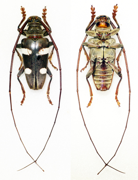 Aurivillius, 1907 Sex: Male Data: 07-2012 - Trus Madi Mts - Sabah - North Borneo - Malaysia Size: ?